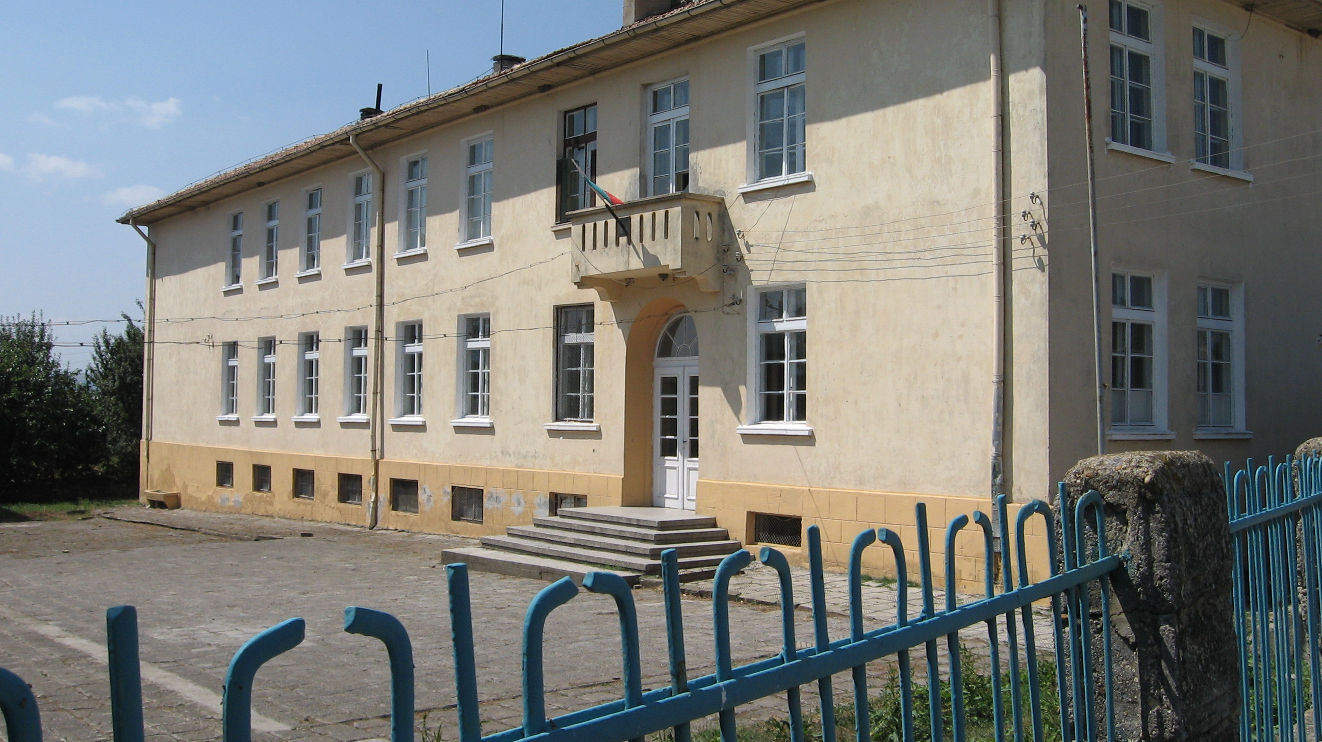 ичилище